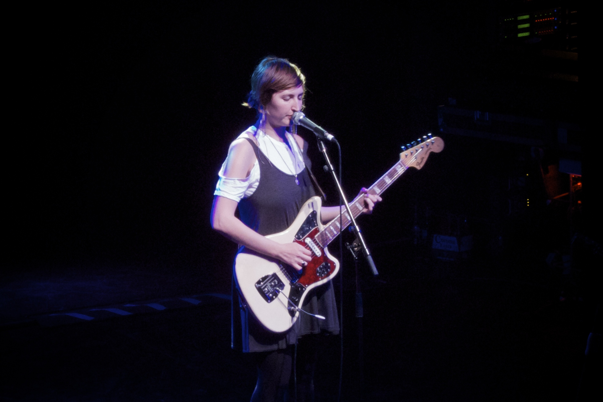 Emily Kokal of Warpaint performing at the Shepherd's Bush Empire in 2011